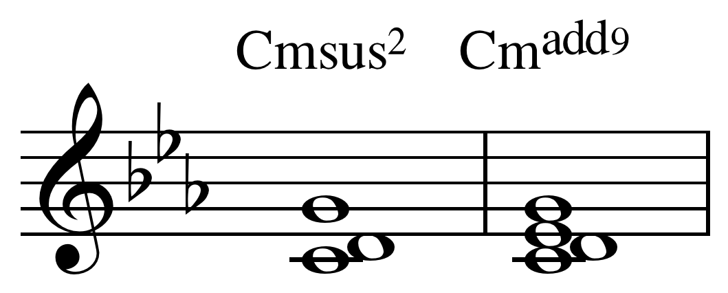 Suspended chord (sus2) and added tone chord (add9) both with D (ninth=second), distinguished by the absence or presence of the third (E♭).